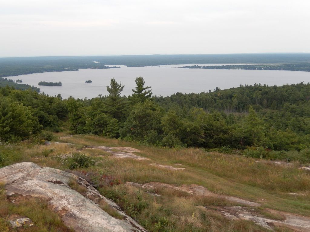 Calabogie Lake, Ontario seen from Calabogie Peaks ski resort